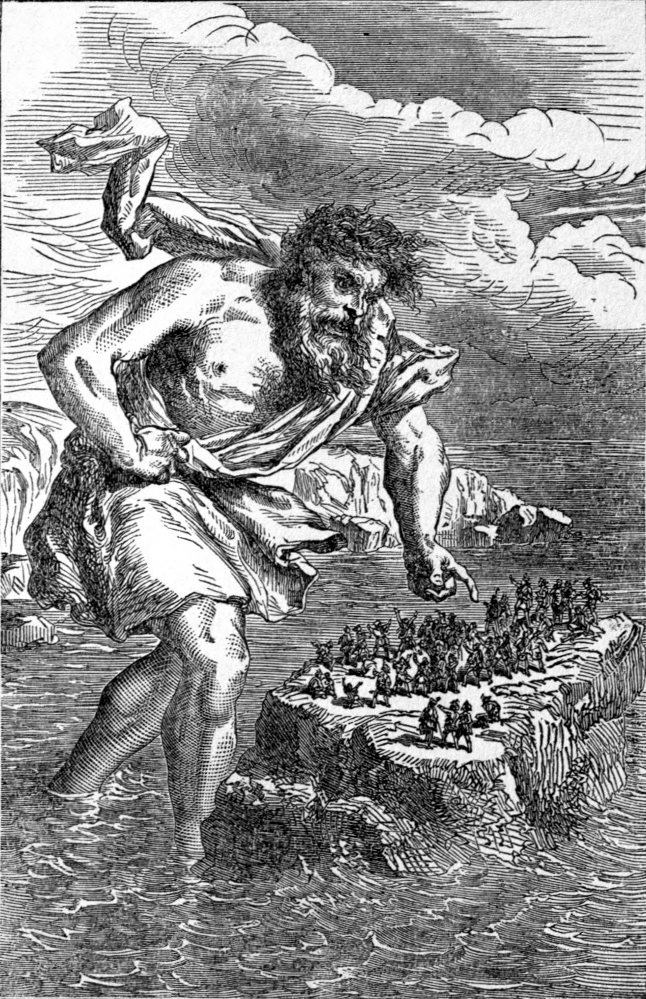 Giant Suttung and the dwarfs (the title given to this illustration in the book)